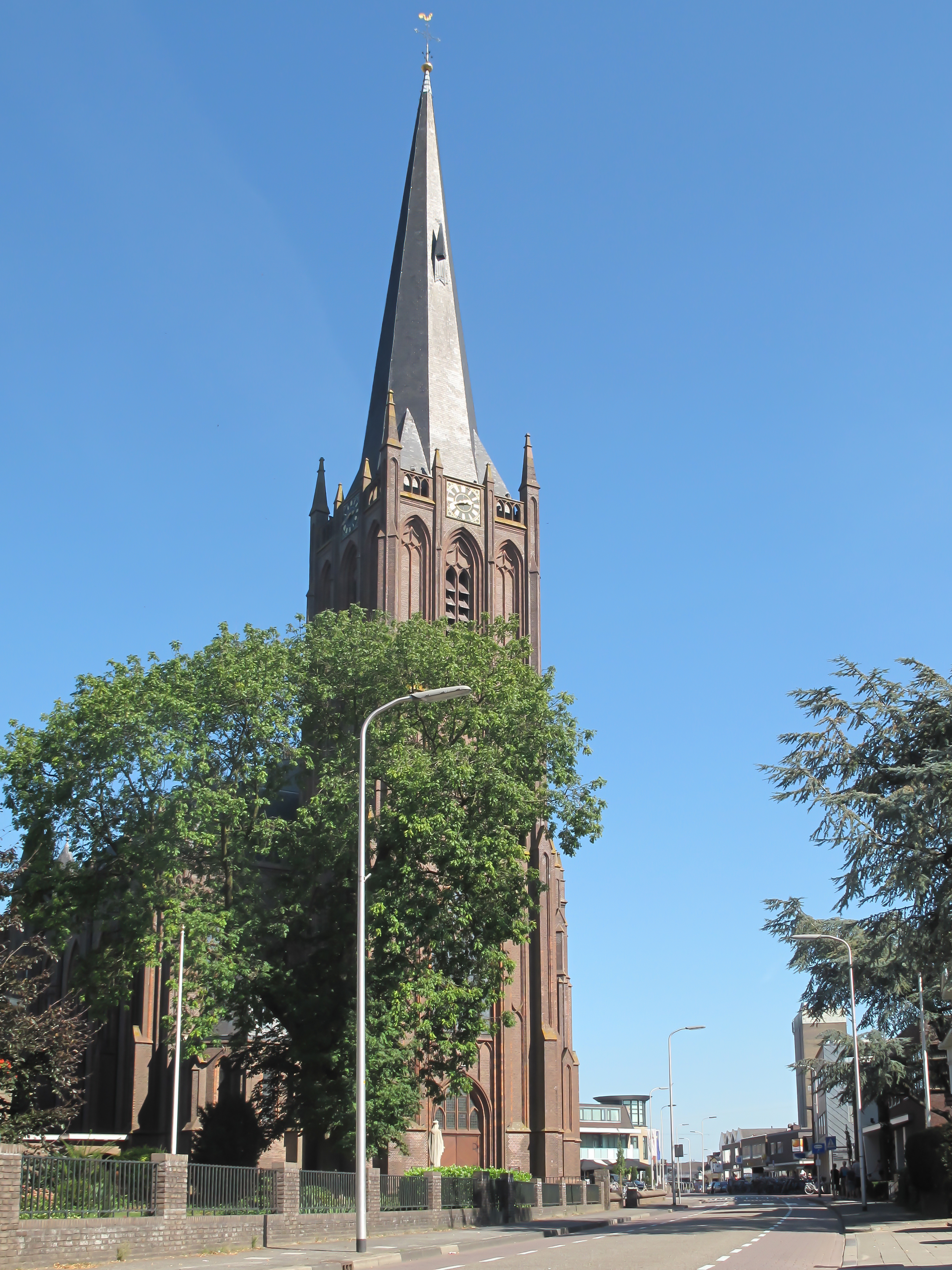 Raalte, church: kerk Heilige Kruisverheffing